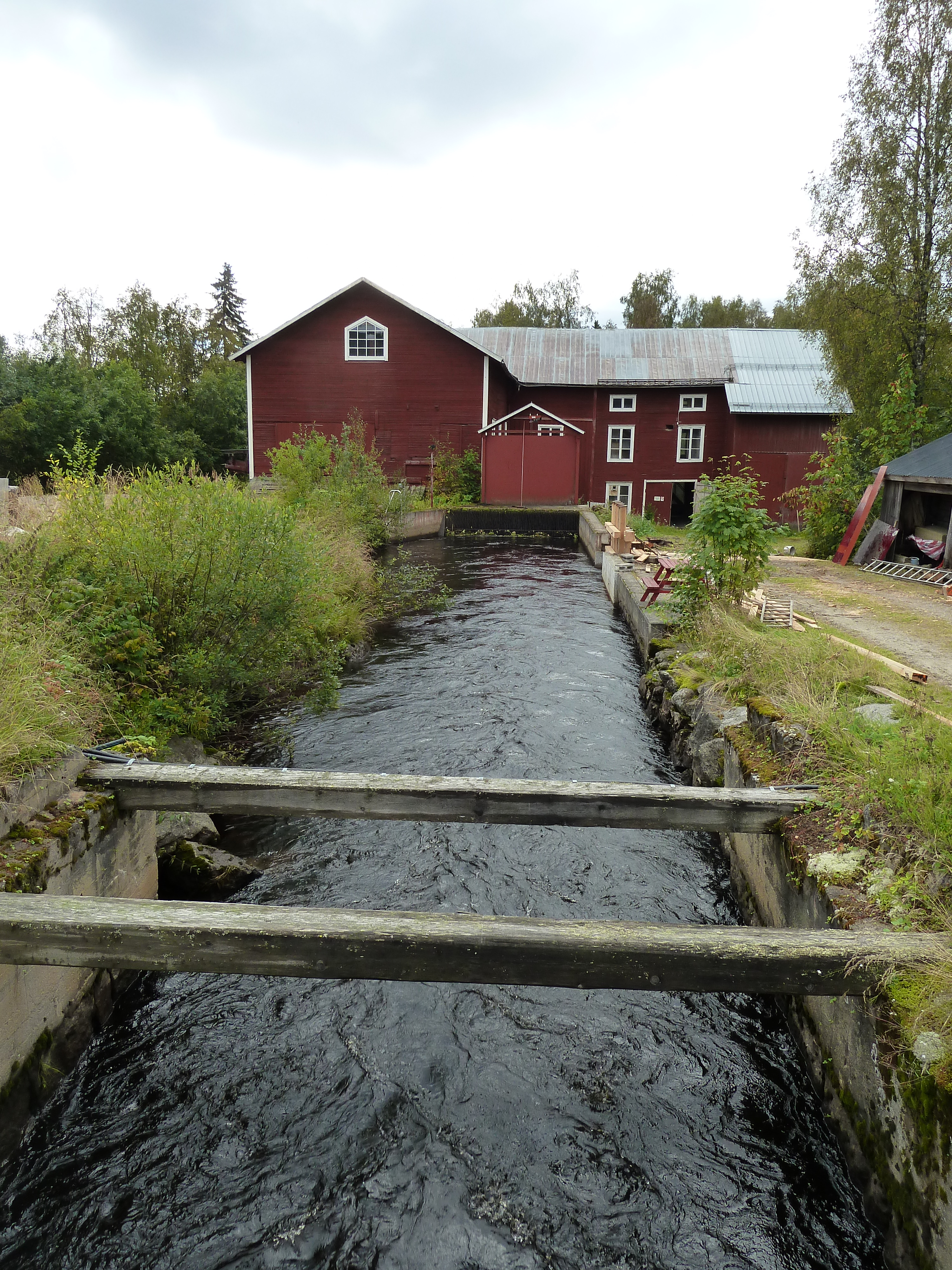 The old watermill "Sörflärke kvarn" in Sörflärke, Örnsköldsvik, Sweden.